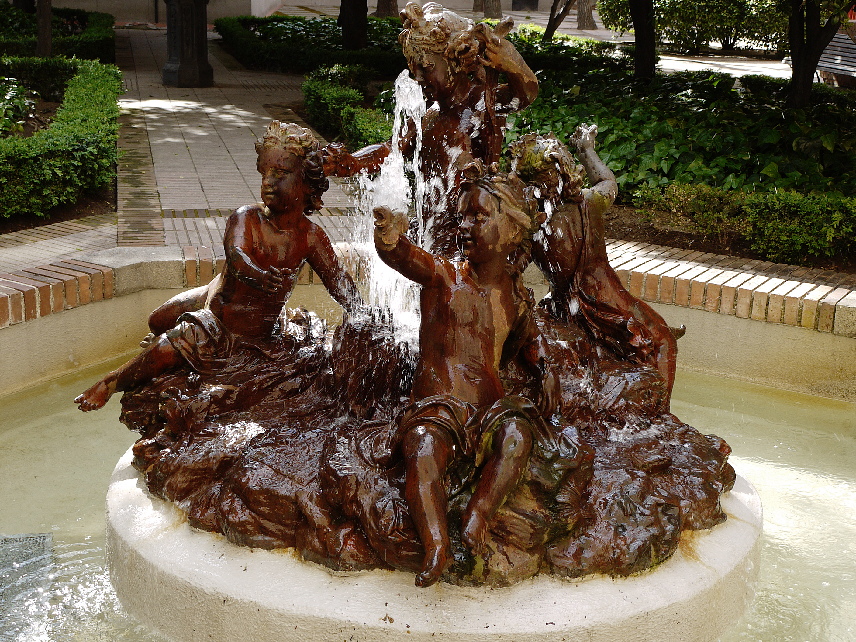 Huerto de las monjas, Madrid, Spain. Small convent garden in central Madrid.